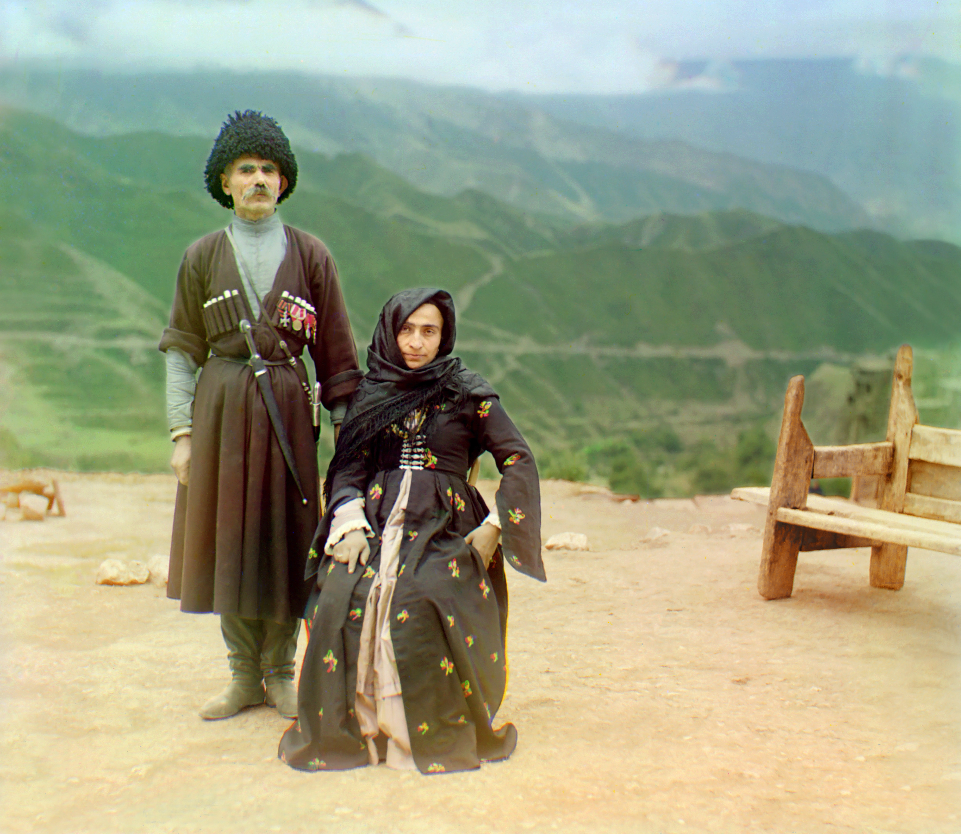 Dagestani couple posed outdoors for a portrait.